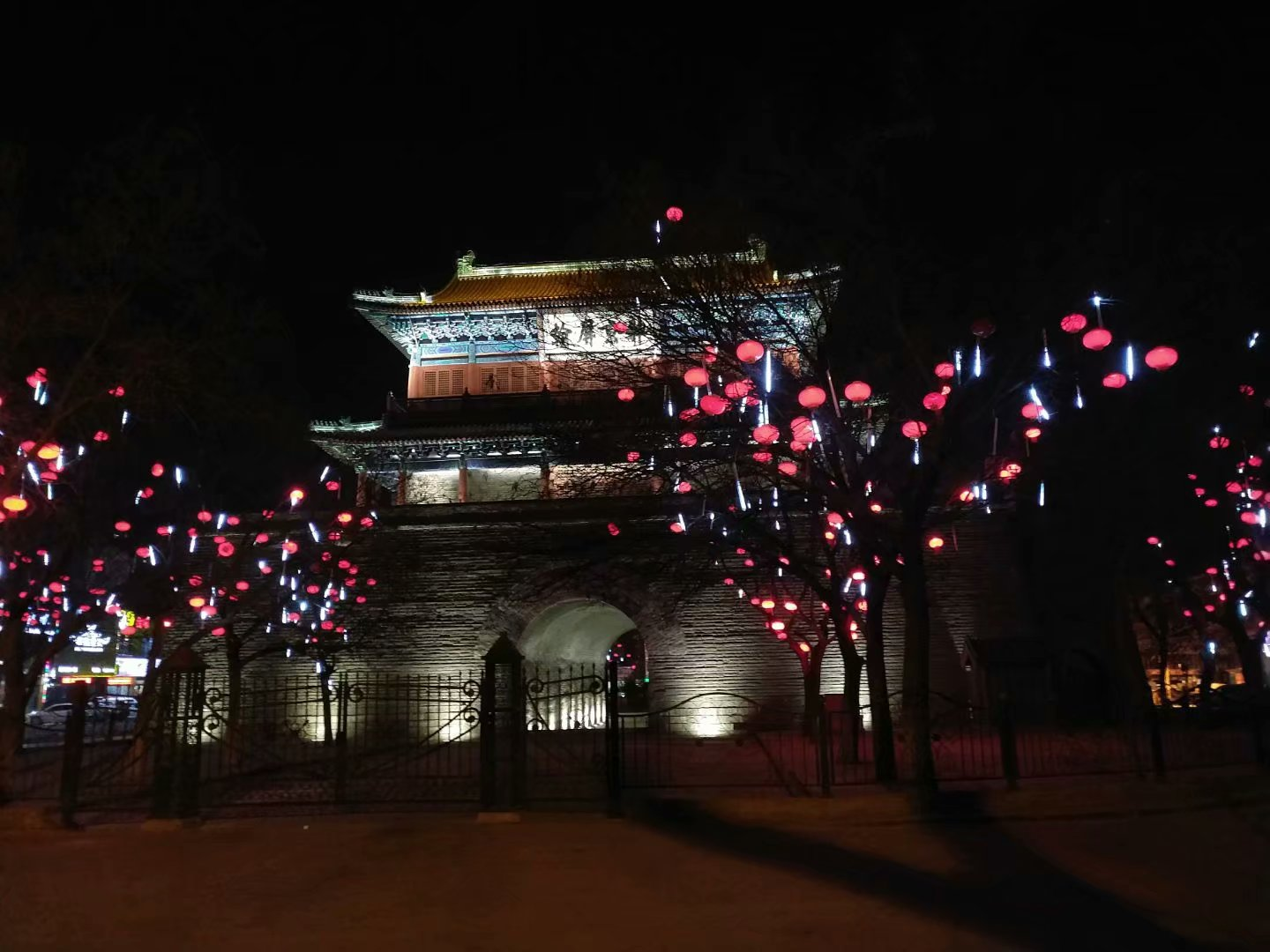 Drum tower (Zhensuo Lou) in Xuanhua Distict, Zhangjiakou City.